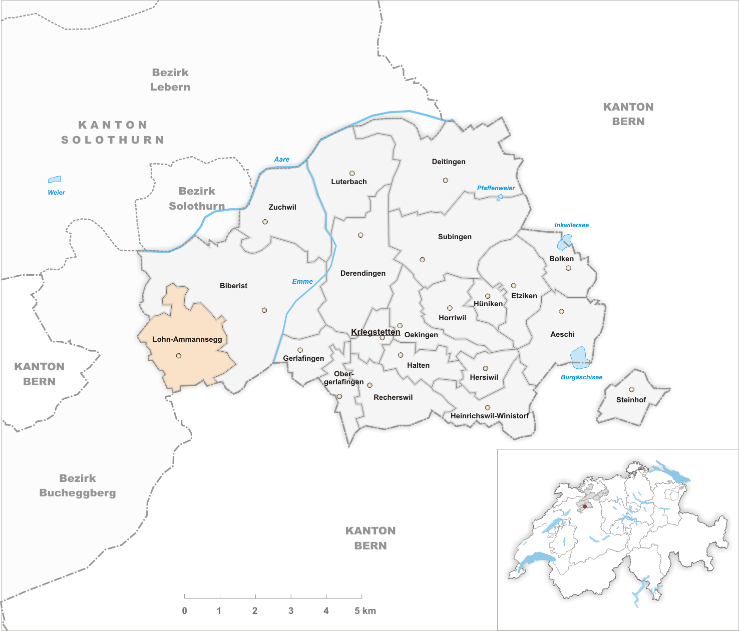 Municipality Lohn-Ammannsegg